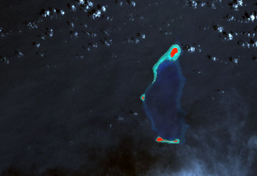 Landsat 7 false-colour image of Pulap (Pollap) Atoll, Chuuk State, Federated States of Micronesia